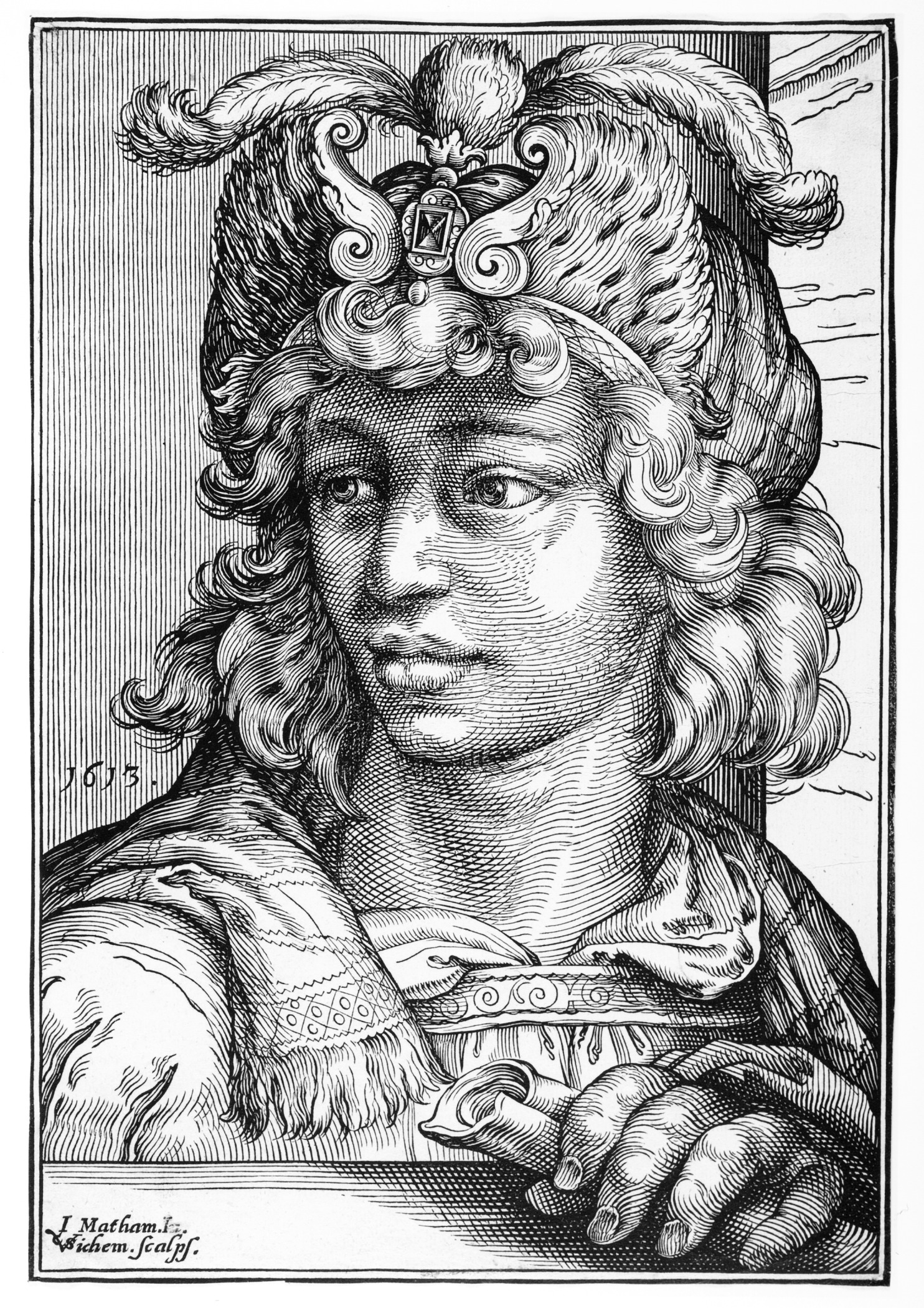 Holland, 1613 Prints; woodcuts Woodcut Mary Stansbury Ruiz Bequest (M.88.91.131) Prints and Drawings